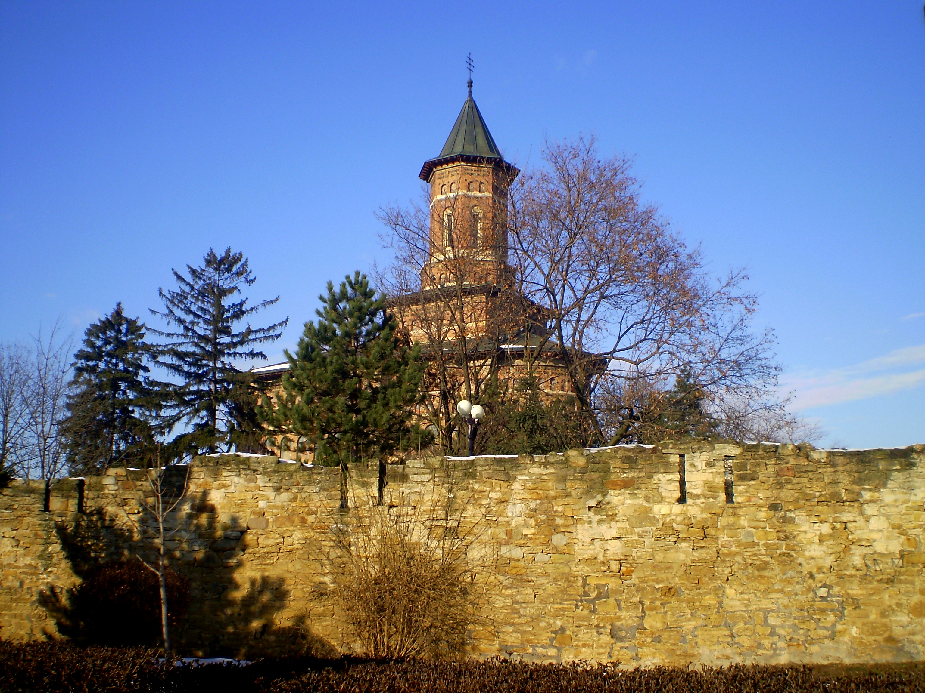 Saint Nicholas Royal Church and fragments of the enclosure wall in Iaşi , Iaşi,RomaniaRomână: Biserica "Sf.Nicolae Domnesc" şi fragmente din zidul de incinta al bisericii , Iaşi, România